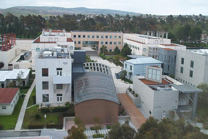 The Henry Samueli School of Engineering at the University of California, Irvine in 2006. In the foreground are two Frank Gehry-designed buildings: to the left, the Rockwell Engineering Center and attached McDonnell Douglas Engineering Auditorium; to the right, the now-demolished ICS/Engineering Research Facility. UC Irvine was criticized for demolishing the award-winning and architecturally significant building in 2007. In the middle background, the Engineering Gateway building is visible. In the far background is the university-owned University Hills subdivision and the San Joaquin Hills.